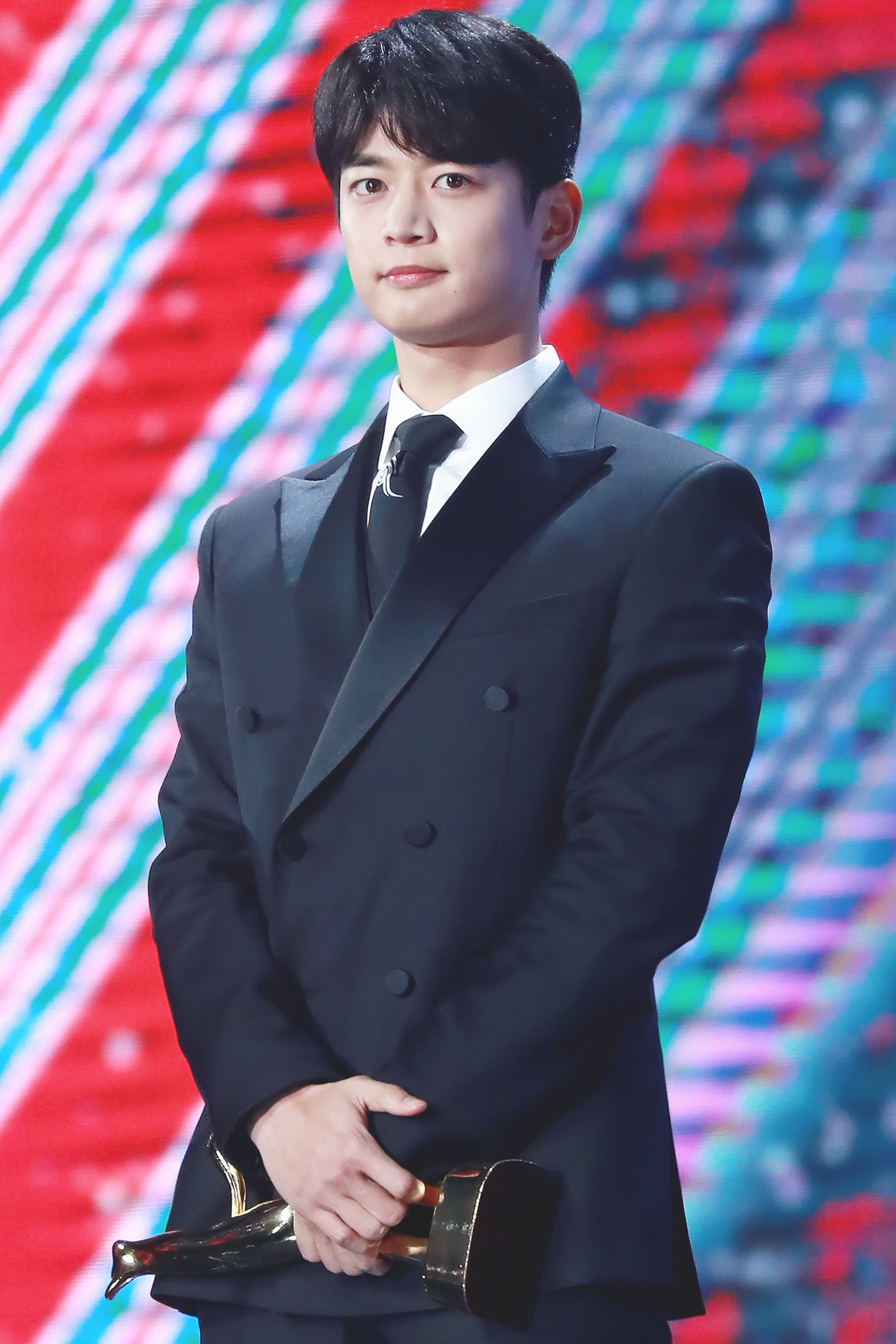 Choi Min-ho during at 33rd Golden Disc Awards on January 6, 2019.